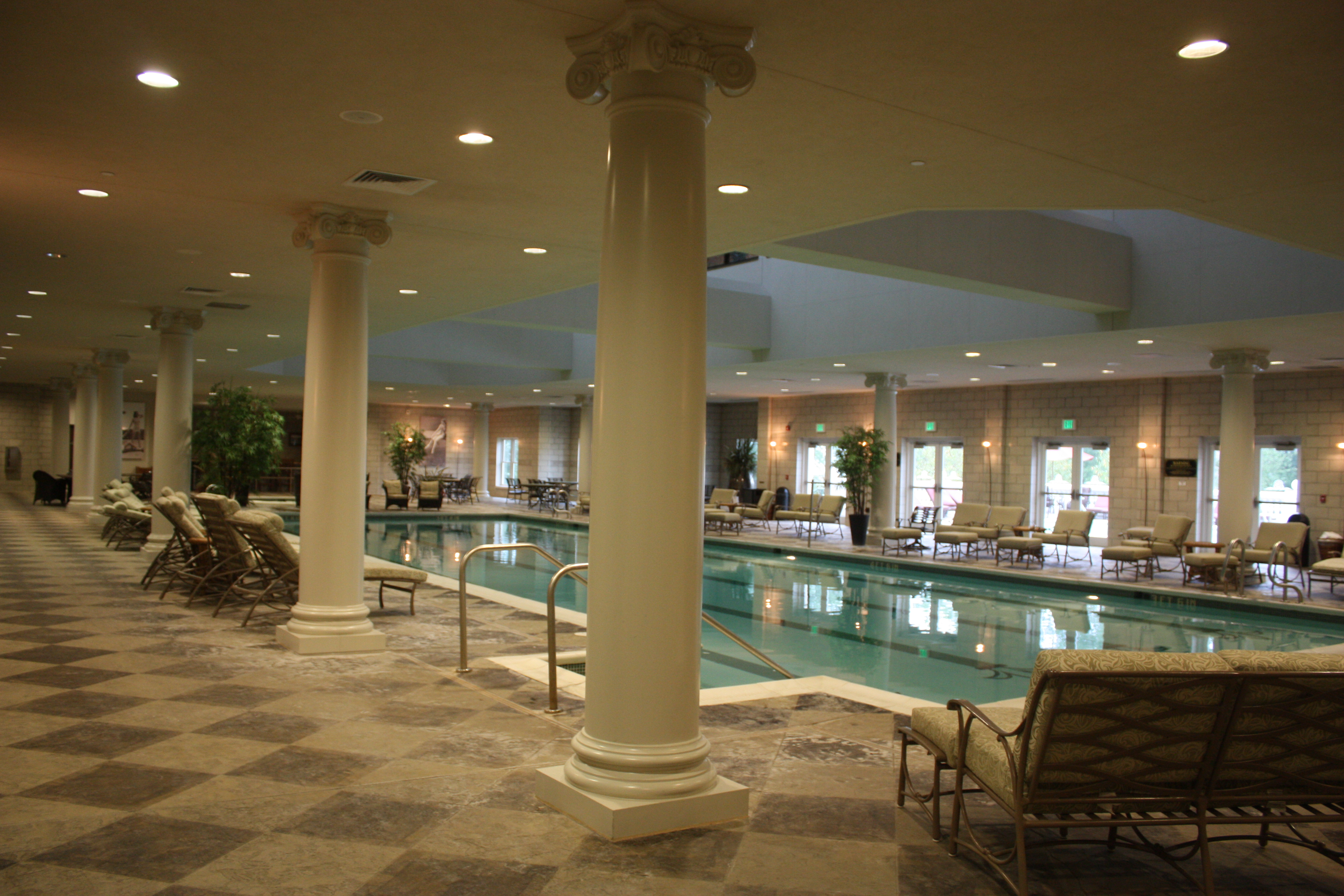 The guest swimming pool at West Baden Springs Hotel, Indiana